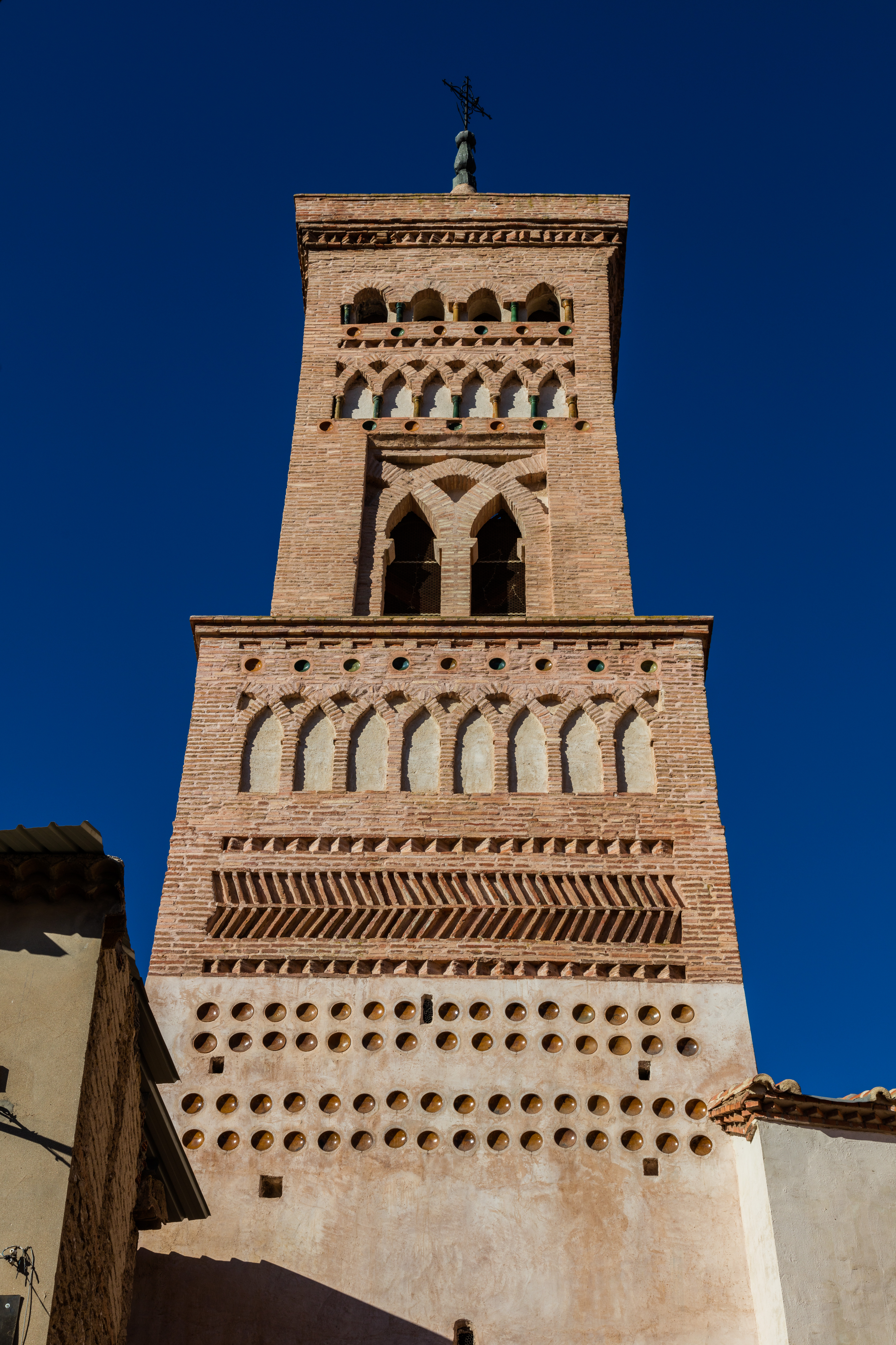 Church of San Miguel, Belmonte de Gracián, Zaragoza, Spain